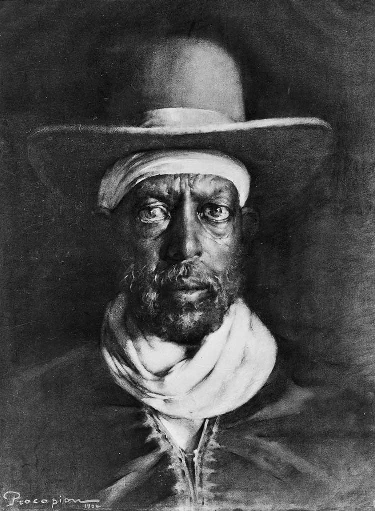 Emperor Menelik